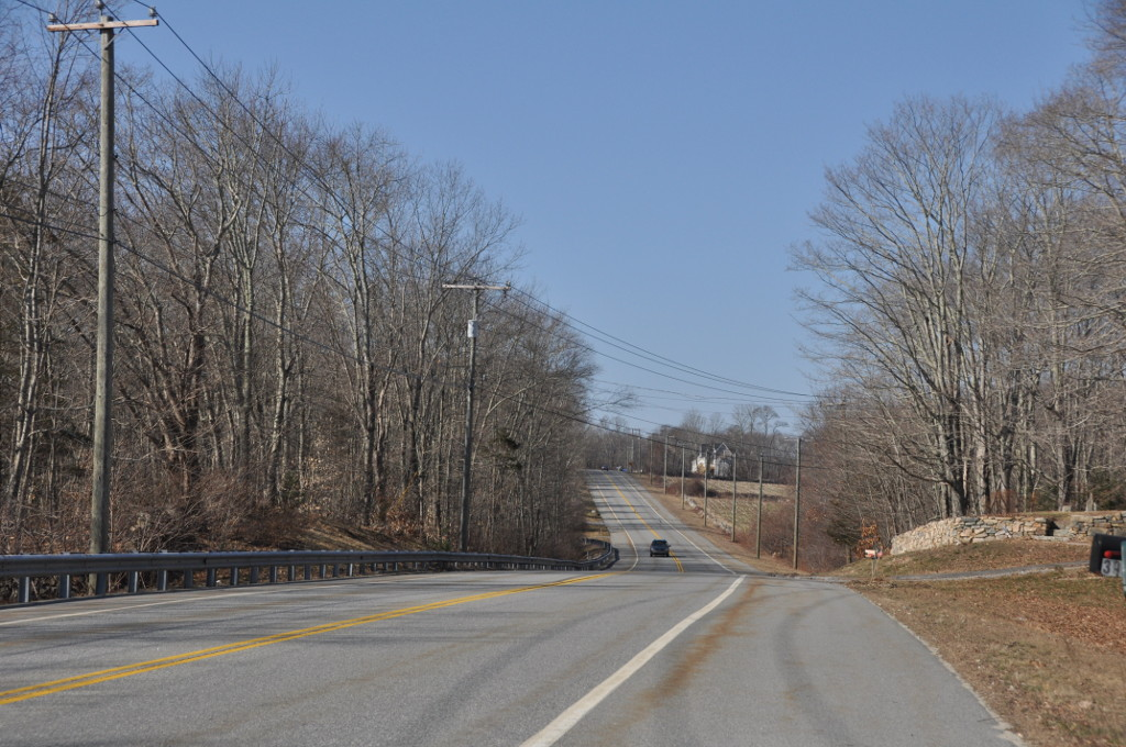 March Route of Rochambeau's Army: Plainfield Pike (Connecticut Route 14A), Plainfield, Connecticut.